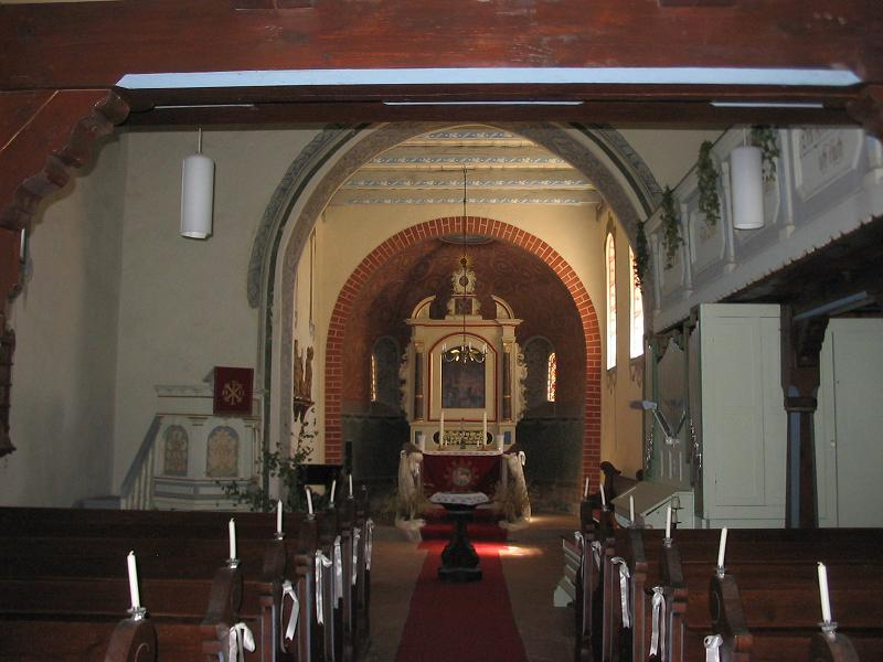 Stone church Grubo, built at the first third of the13th century. The village Grubo is a part of the municipality Wiesenburg/Mark in the district Potsdam Mittelmark, state Brandenburg, Germany. Wiesenburg appertains to the natural preserve Naturpark Hoher Fläming.